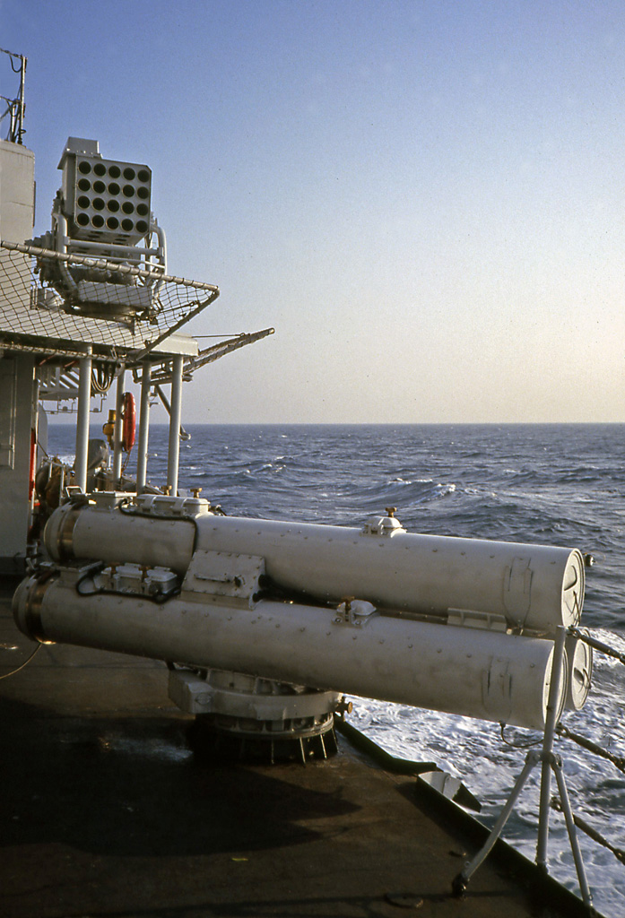 An Mk32 triple torpedo launcher onboard of Italian Navy frigate Grecale (F571) - 1985